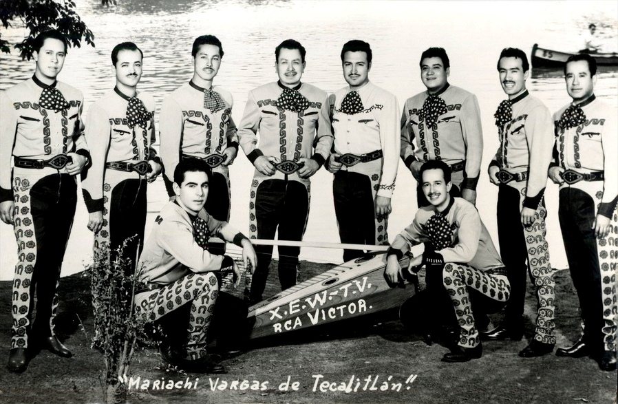 Members of Mariachi Vargas de Tecalitlán (Third Generation 1950).